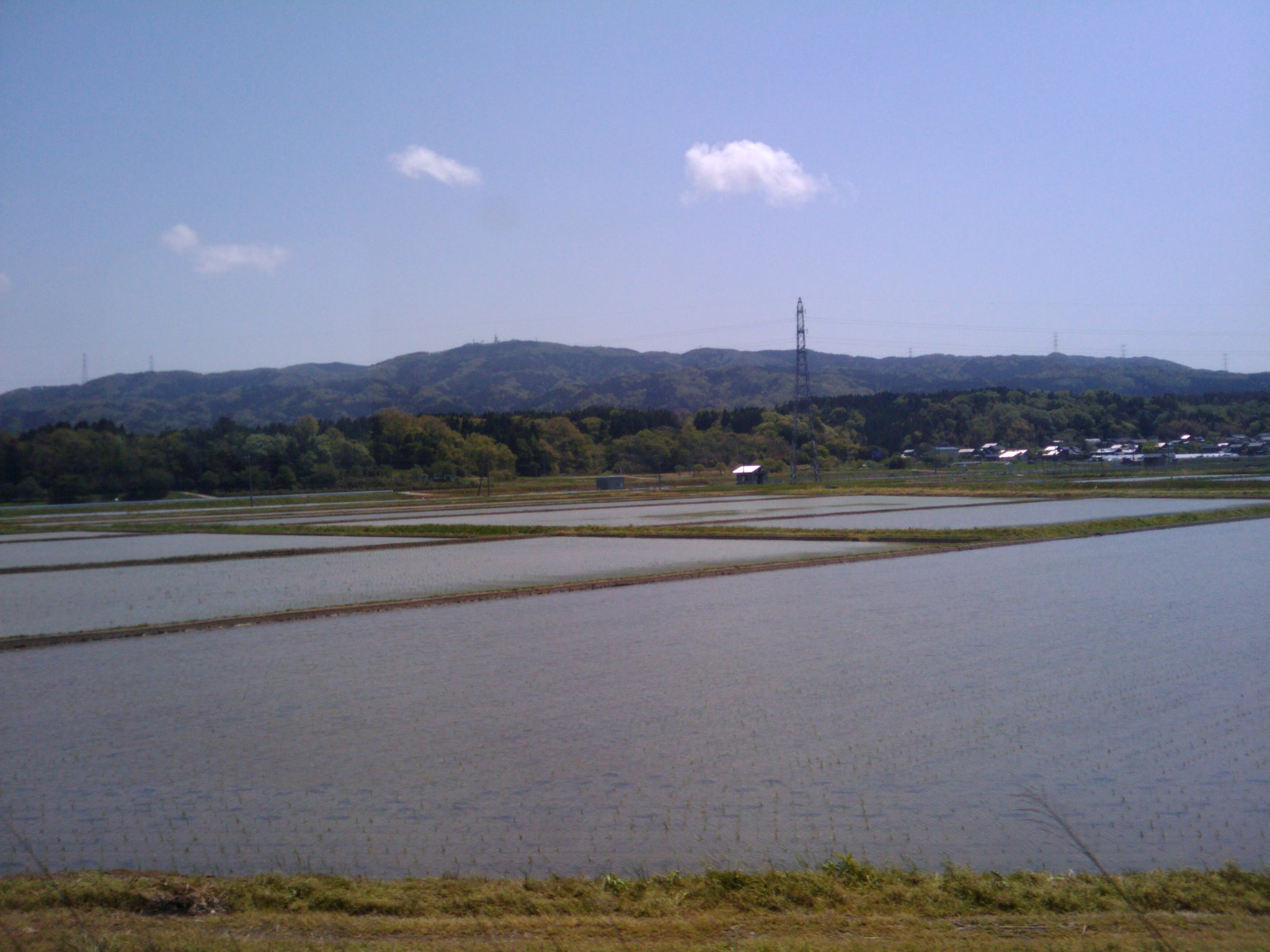 Mount Hodatsu (Hodatsushimizu, Ishikawa, Japan)